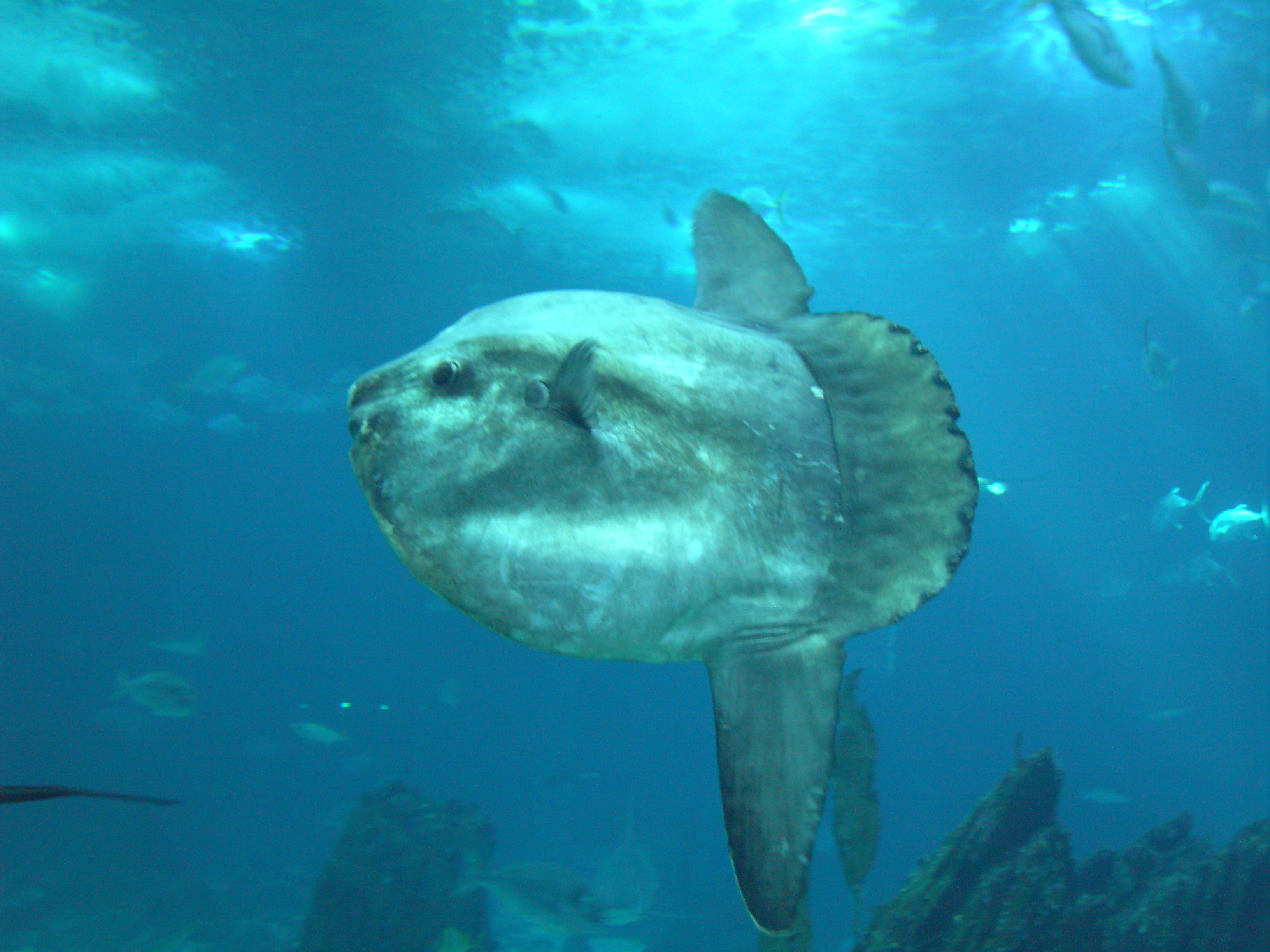 Original photograph taken by Nol Aders on 20th October 2005, 15:29 in Oceanario Lisboa